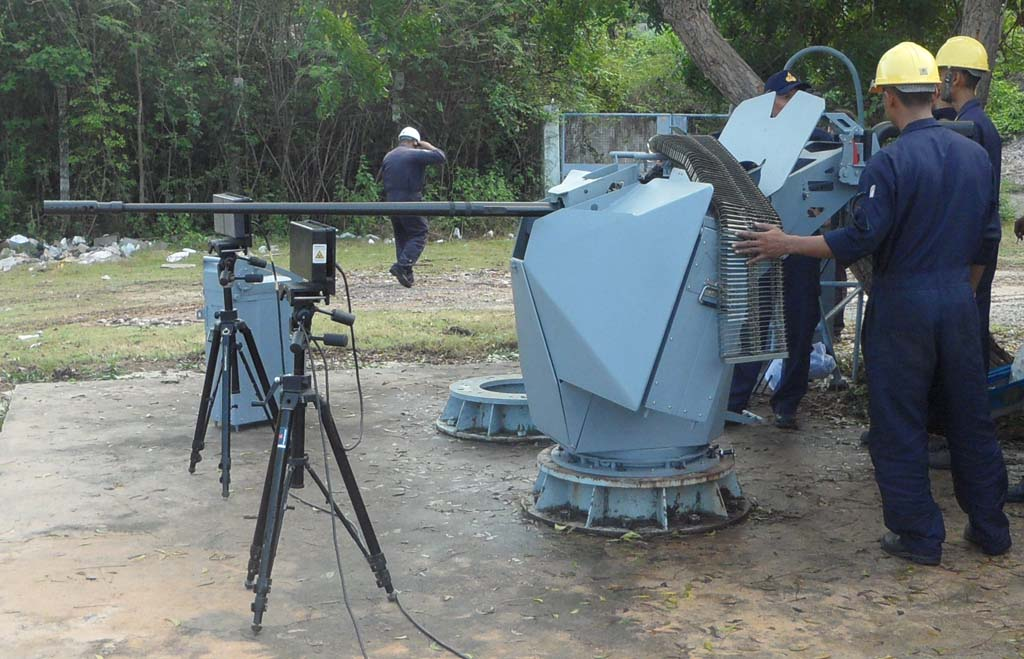 DENEL GI-2